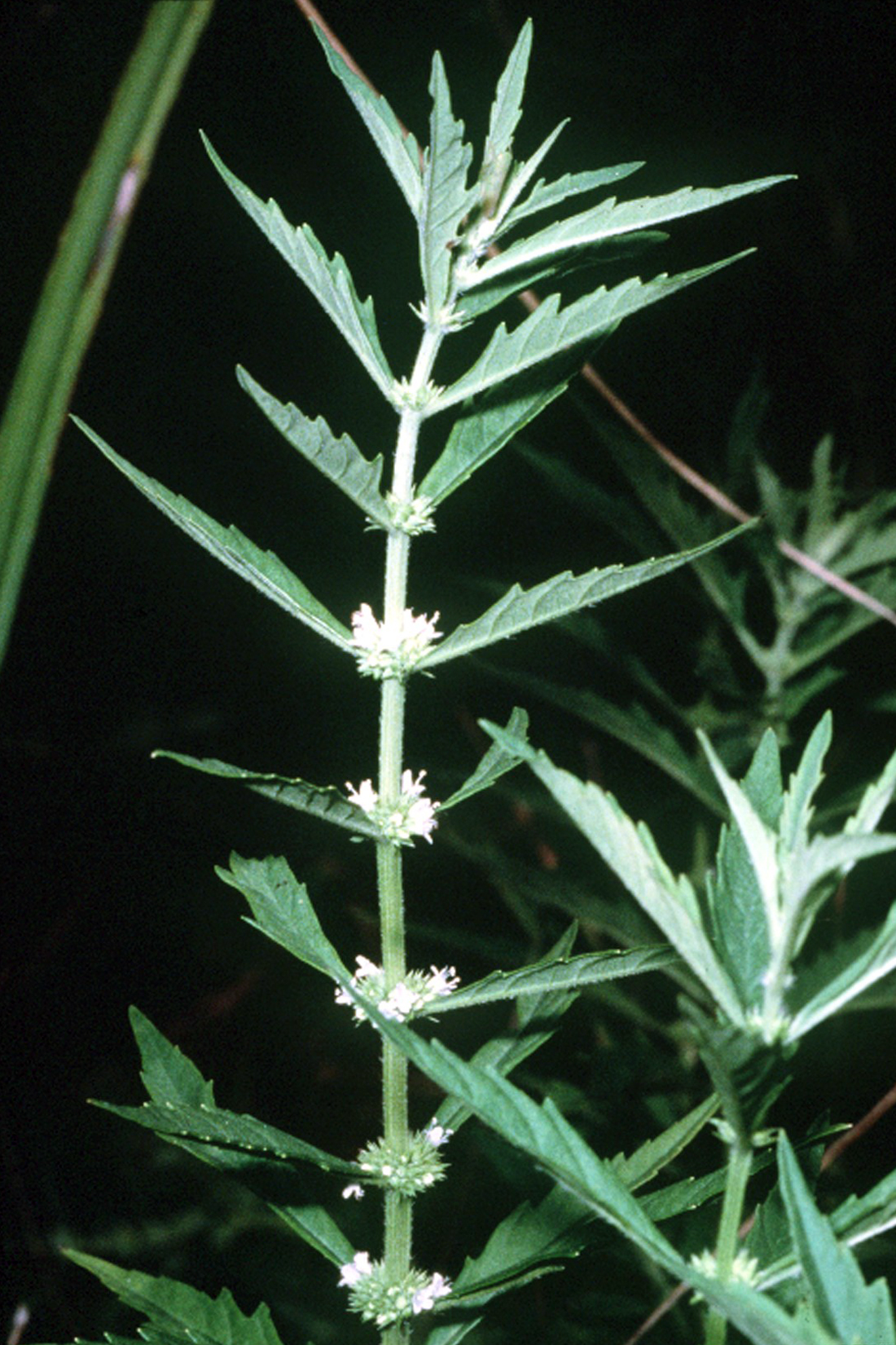 Lycopus americanus Muhl. ex W. Bartram - American water horehound